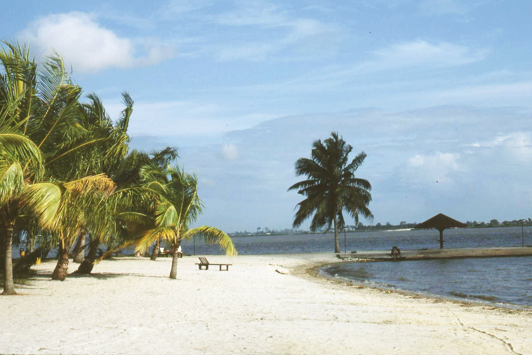 Bassam Beach, Bassam, Côte d'Ivoire.